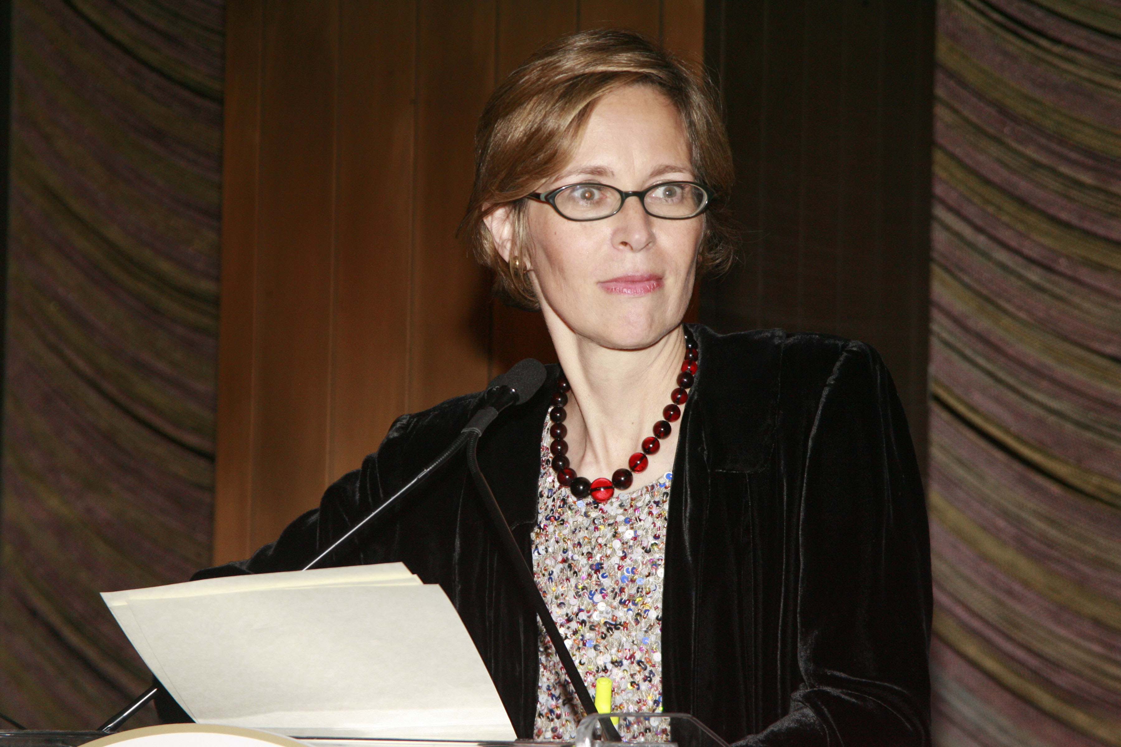 Amity Shlaes at The Calvin Coolidge Memorial Foundation First Annual New York Dinner. Held at The Four Seasons Restaurant in New York City.